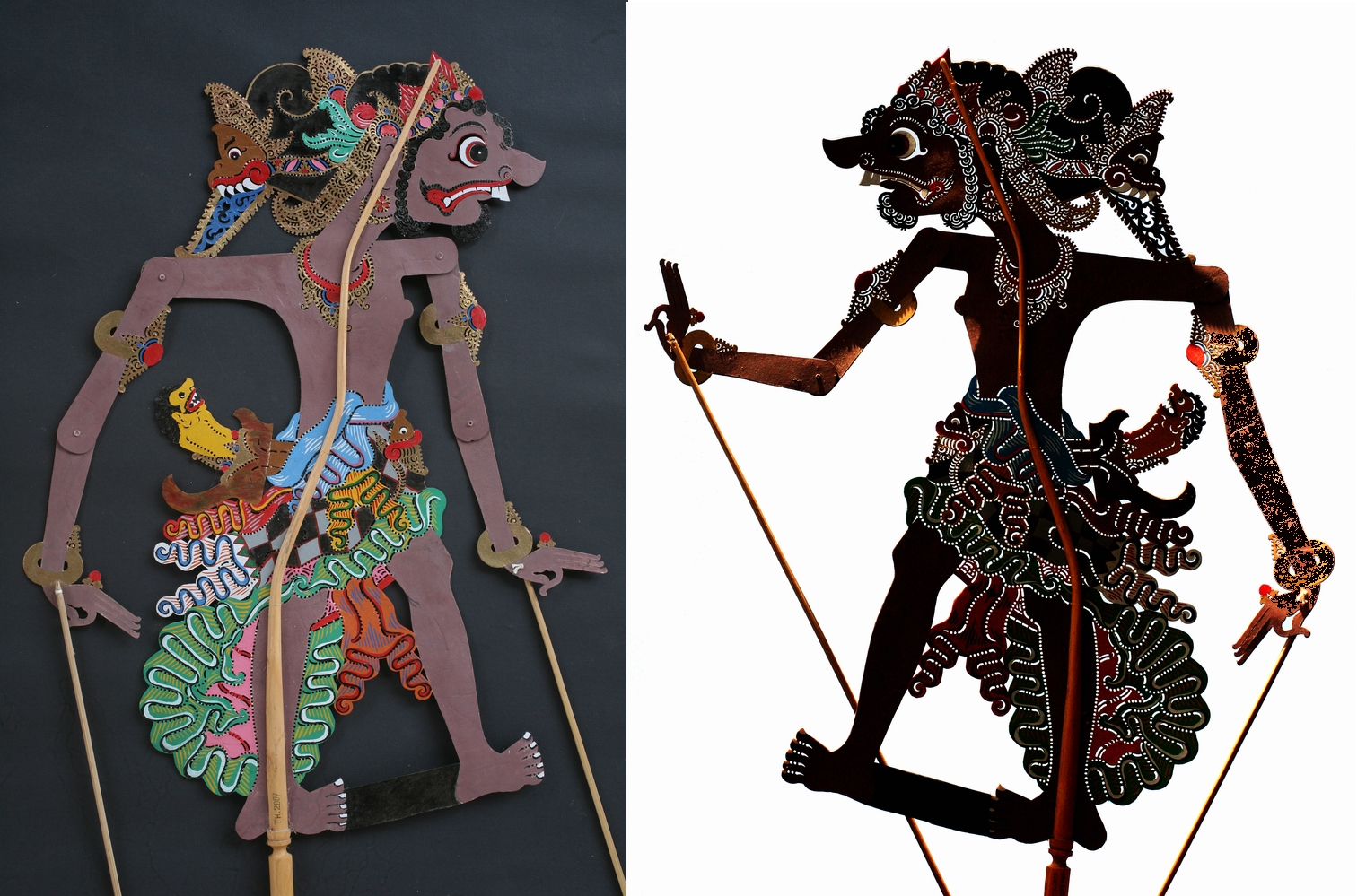 Raja Istaham, wayang kulit figure from the wayang shadow play Serat Menak Sasak